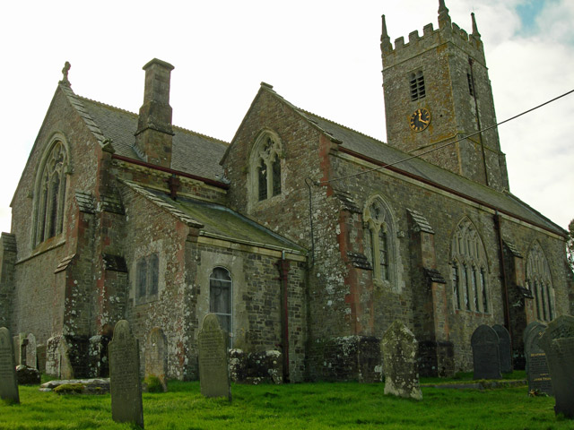 St Petroc's parish church, Petrockstowe, Devon, seen from the northeast